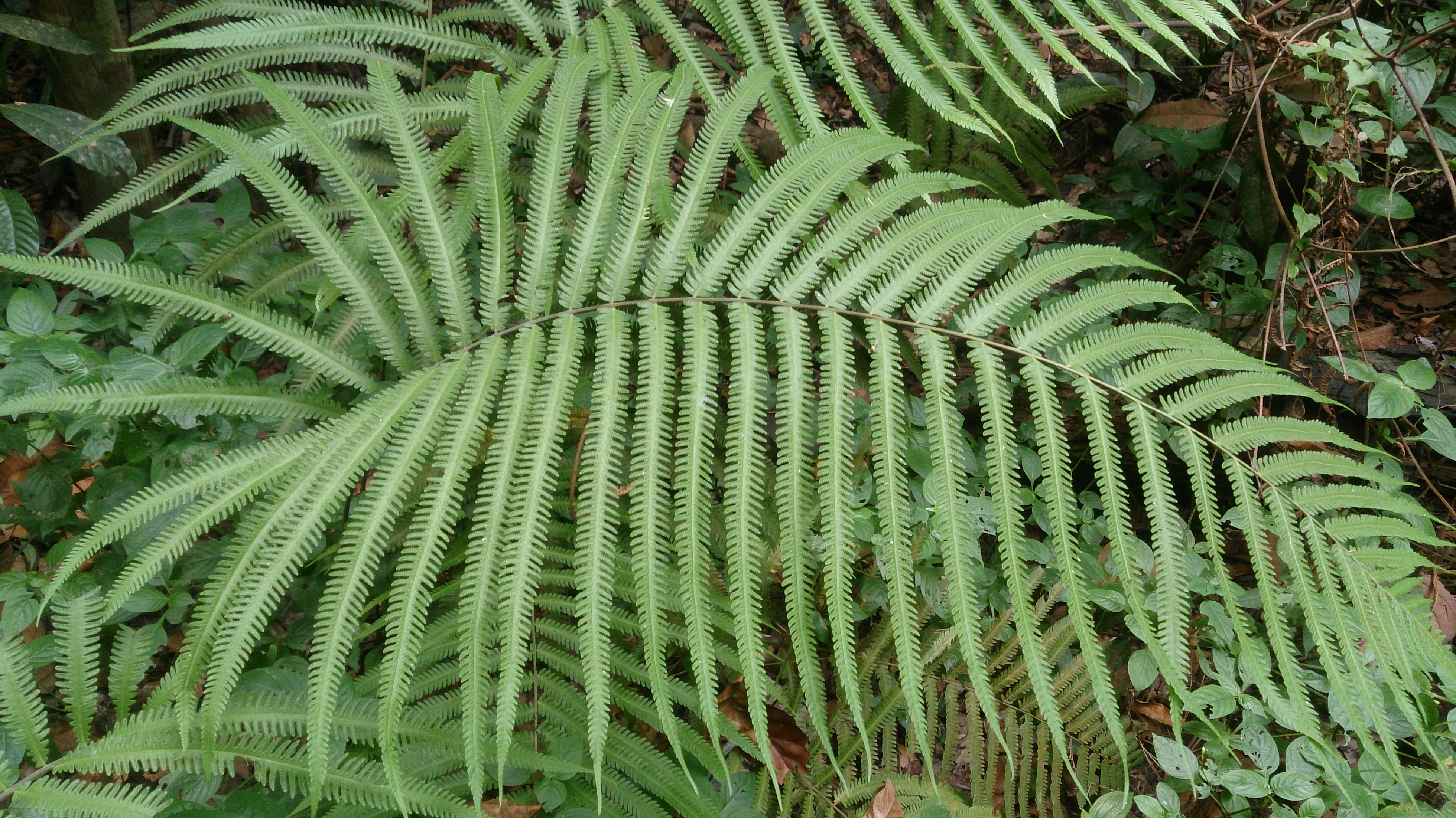 Cyclosorus opulentus, also known as Amphineuron opulentum.